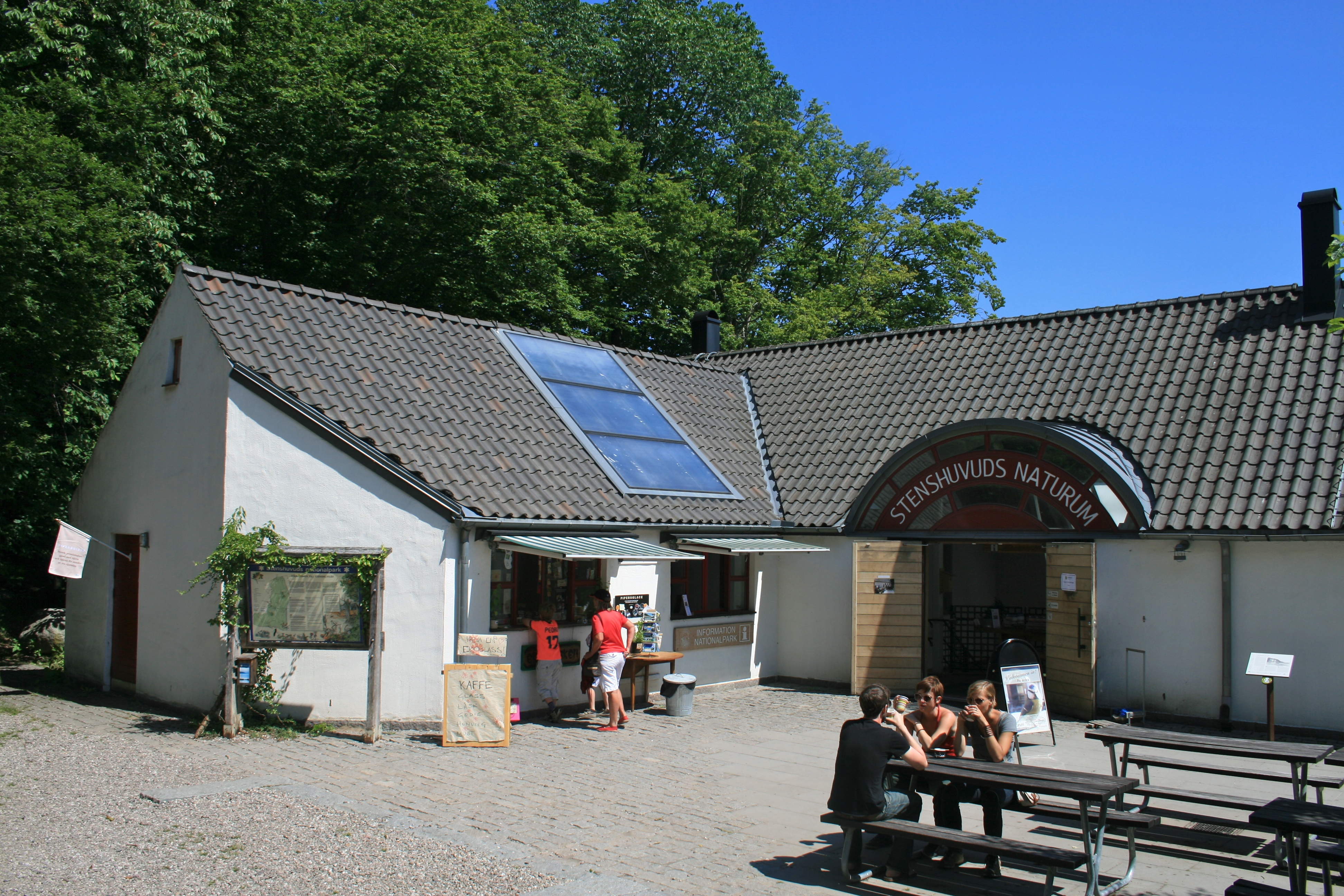 Naturum (information center) in Stenshuvud national park